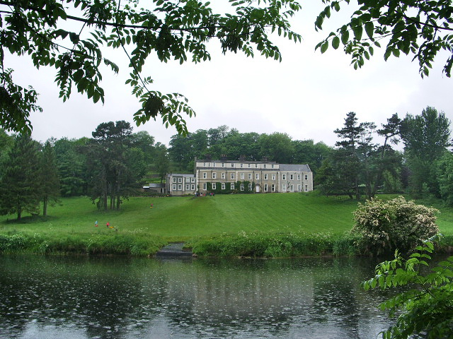 Waddow Hall Once was the home of the Garnett family who were mill owners in Clitheroe.